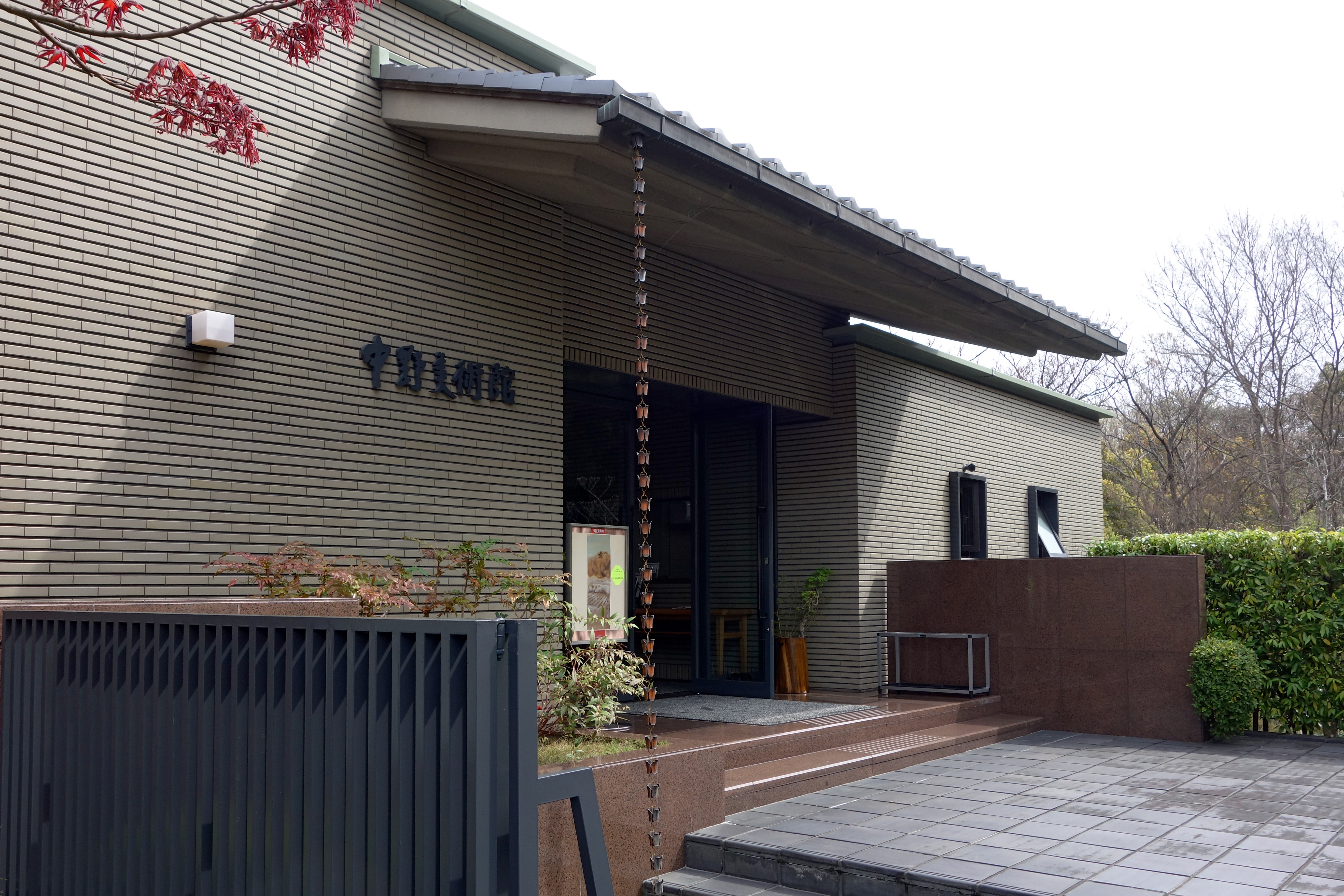 Nakano Museum in Nara, Nara Prefecture, Japan